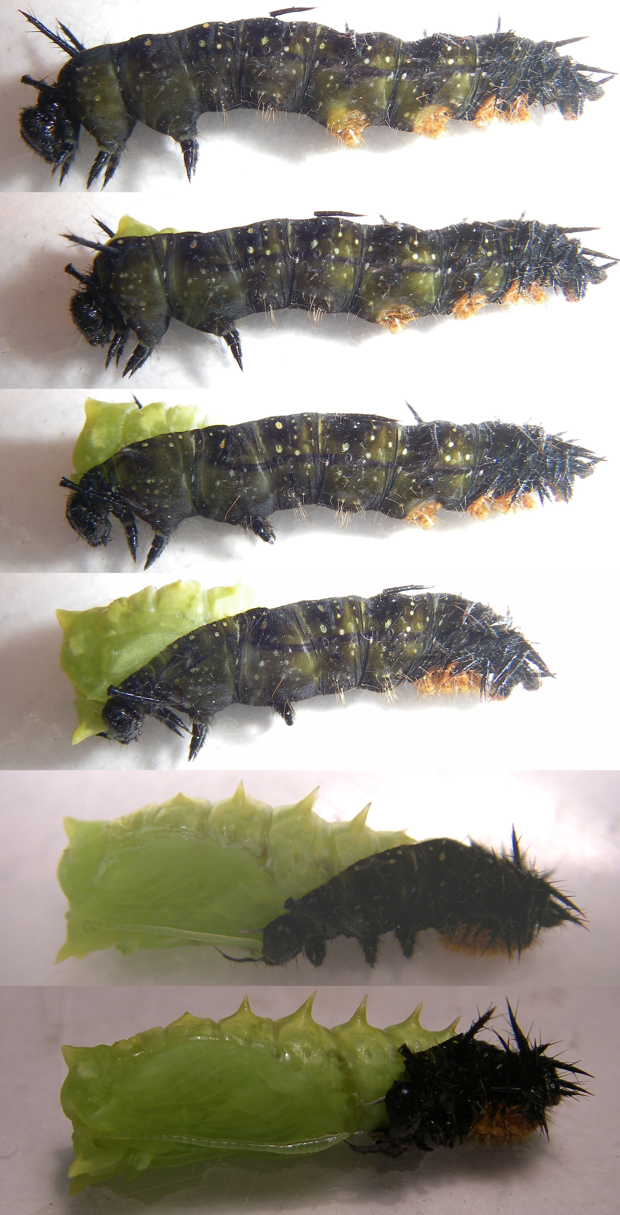 Butterfly Vanessa io: subsequent stages of molt from larva to pupa